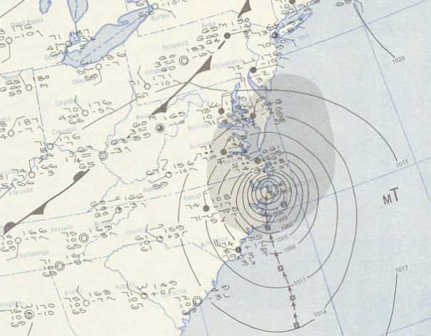 Surface weather analysis of Hurricane Barbara on 14 August 1953.